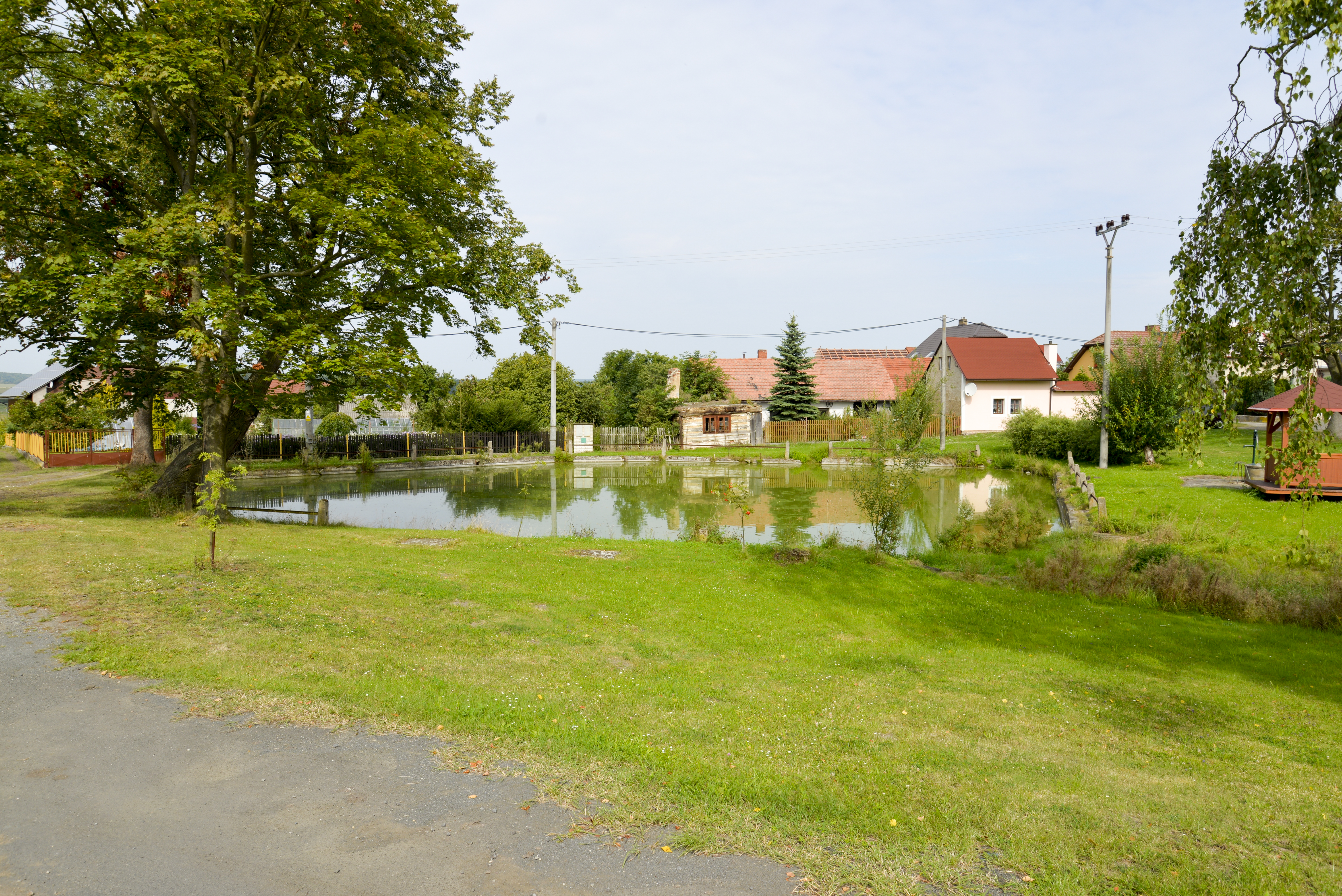 Násedlnice - small village, part of Kněžmost in Mladá Boleslav District village pond.